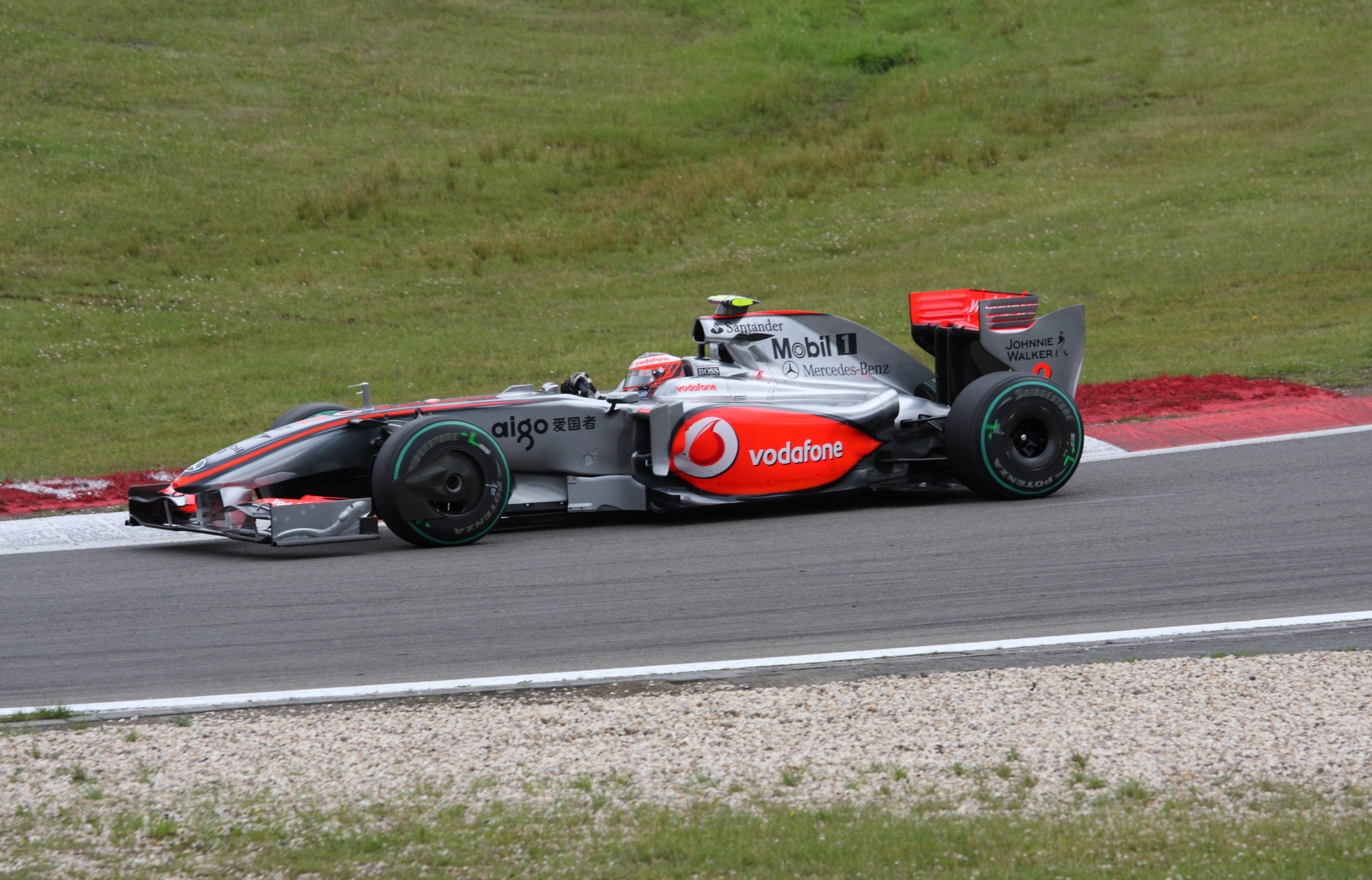 Heikki Kovalainen driving for McLaren at the 2009 German Grand Prix.